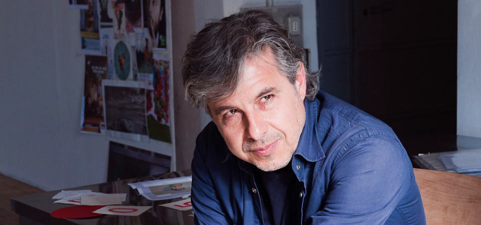 a portrait of the photographer